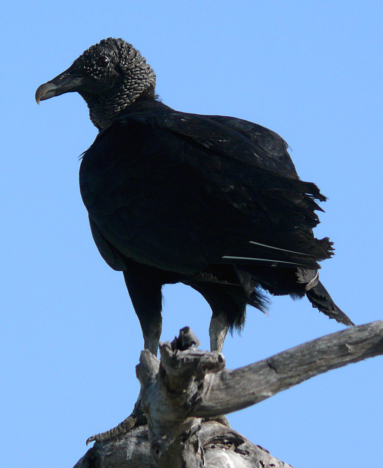 An American Black Vulture (Coragyps atratus) perched in a dead tree.Photo taken with a Panasonic Lumix DMC-FZ50 on the island of Cozumel in Quintana Roo, Mexico.